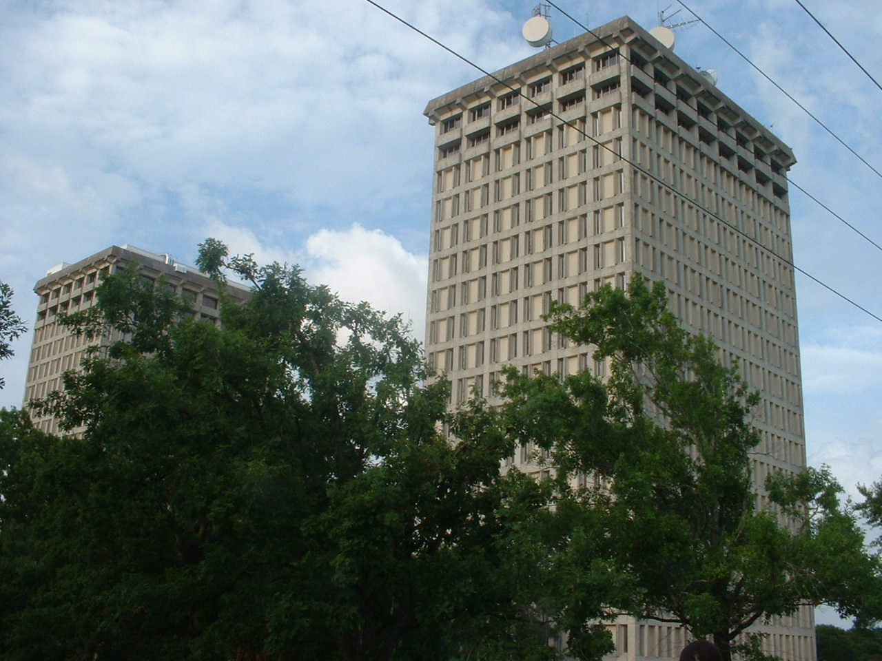 Moody Towers, the largest dormitory complex at the University of Houston